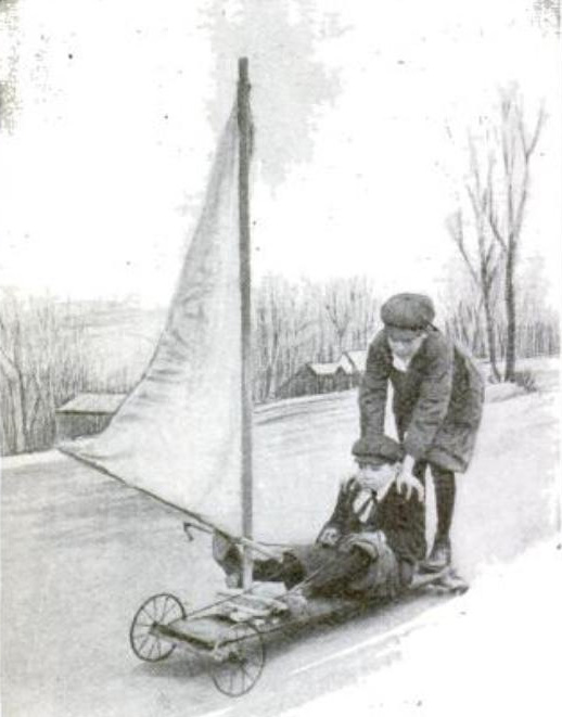 An article about a boy's invention of a "boy's street boat", equipped with a sail and using wheels from a discarded baby carriage, and shoe roller skate trucks on the rear. With front and rear wheels oiled well, and a brisk breeze blowing, he can travel at a 20 mile-per-hour clip without much difficulty, despite the crude construction of the vehicle. The name of this conveyance is the "windmobile" which is at least as happy as the names of apartment houses and Pullman cars. Original article